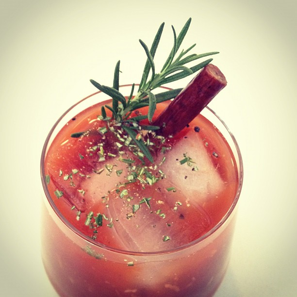 brunch, step 2: bloody mary